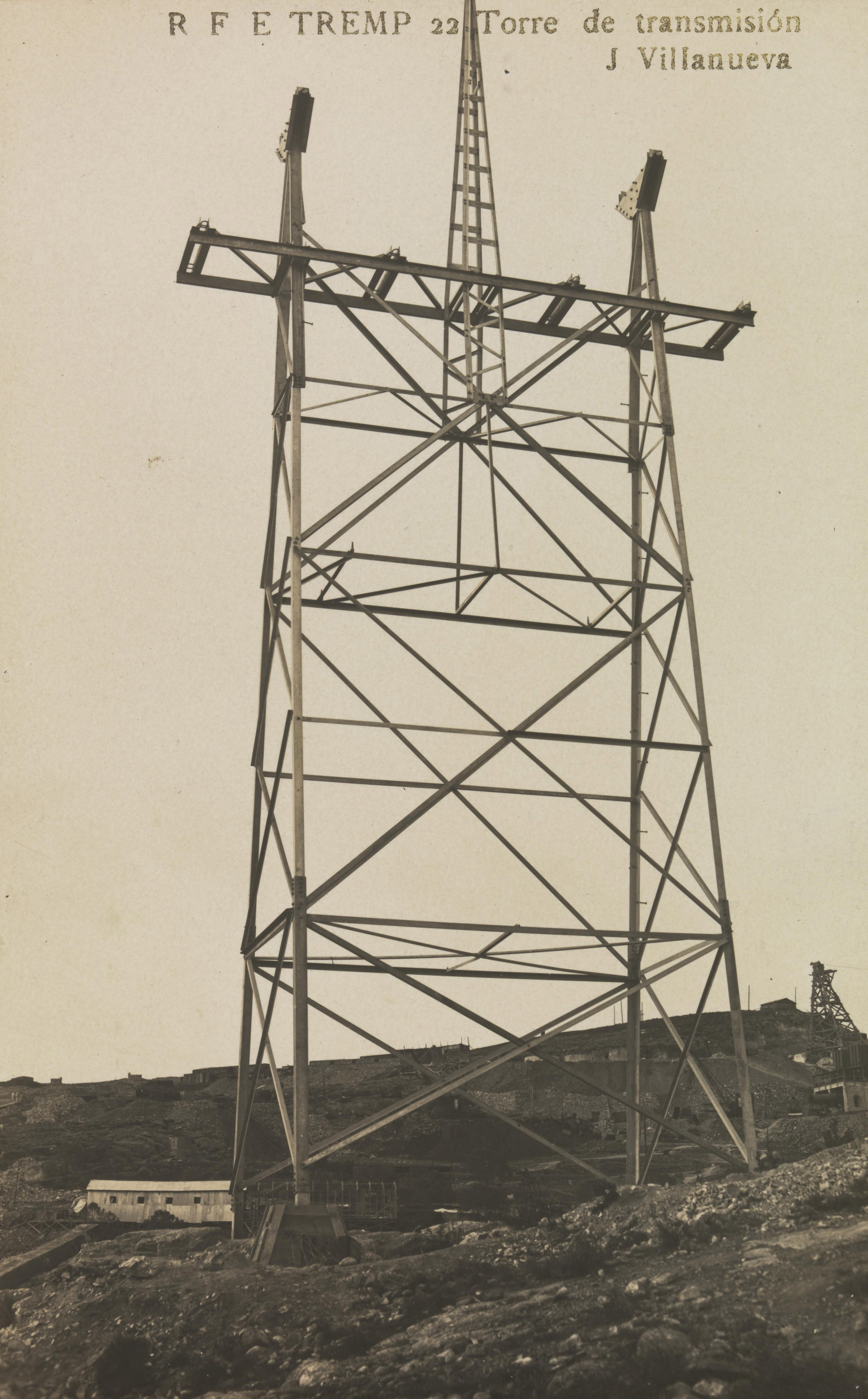 Transmission tower from Talarn hydropwer plant (Catalan Pyrenees). Picture from Norway National Library